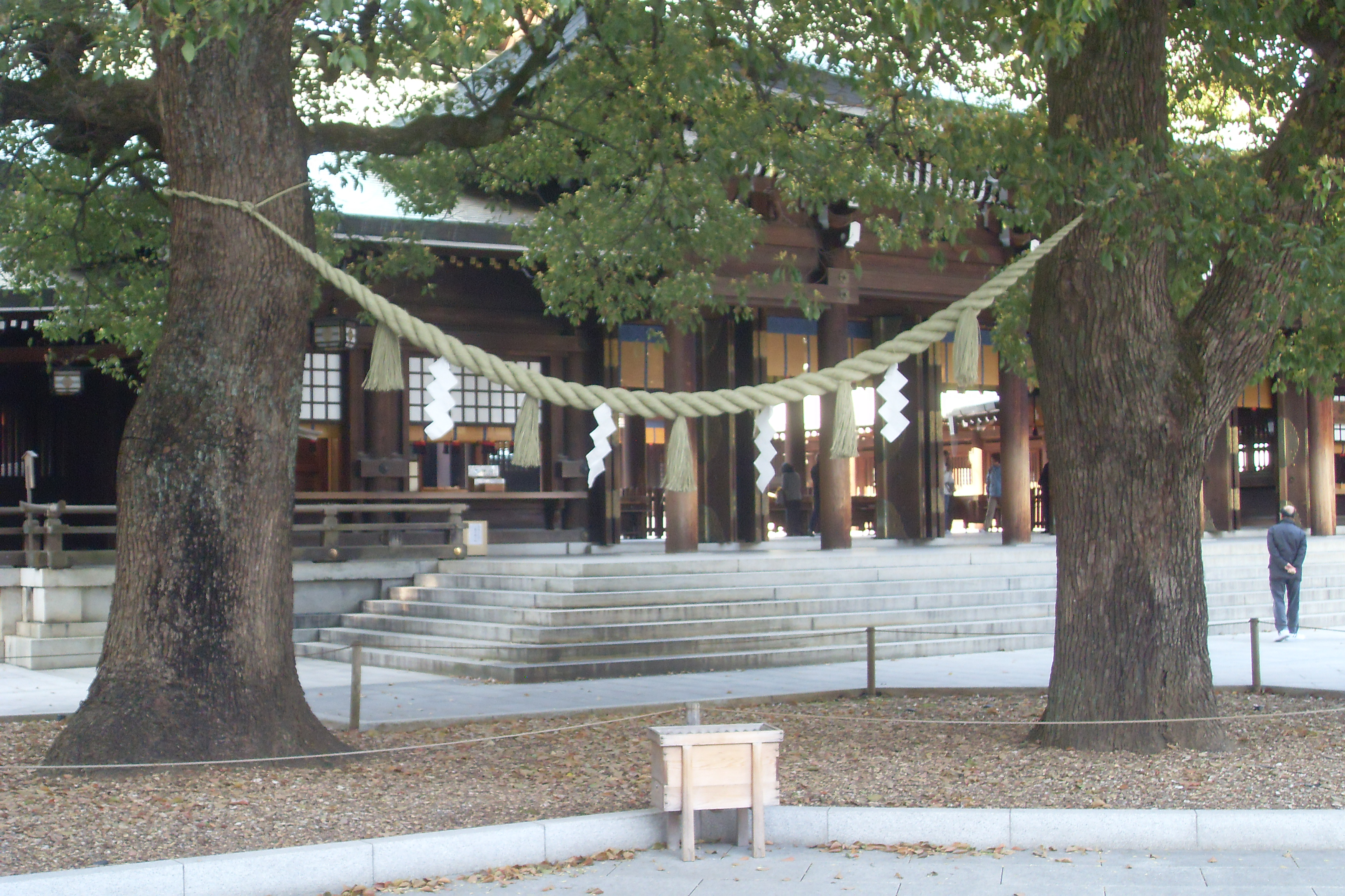 Shimenawa at Meiji Jingu, Tokyo